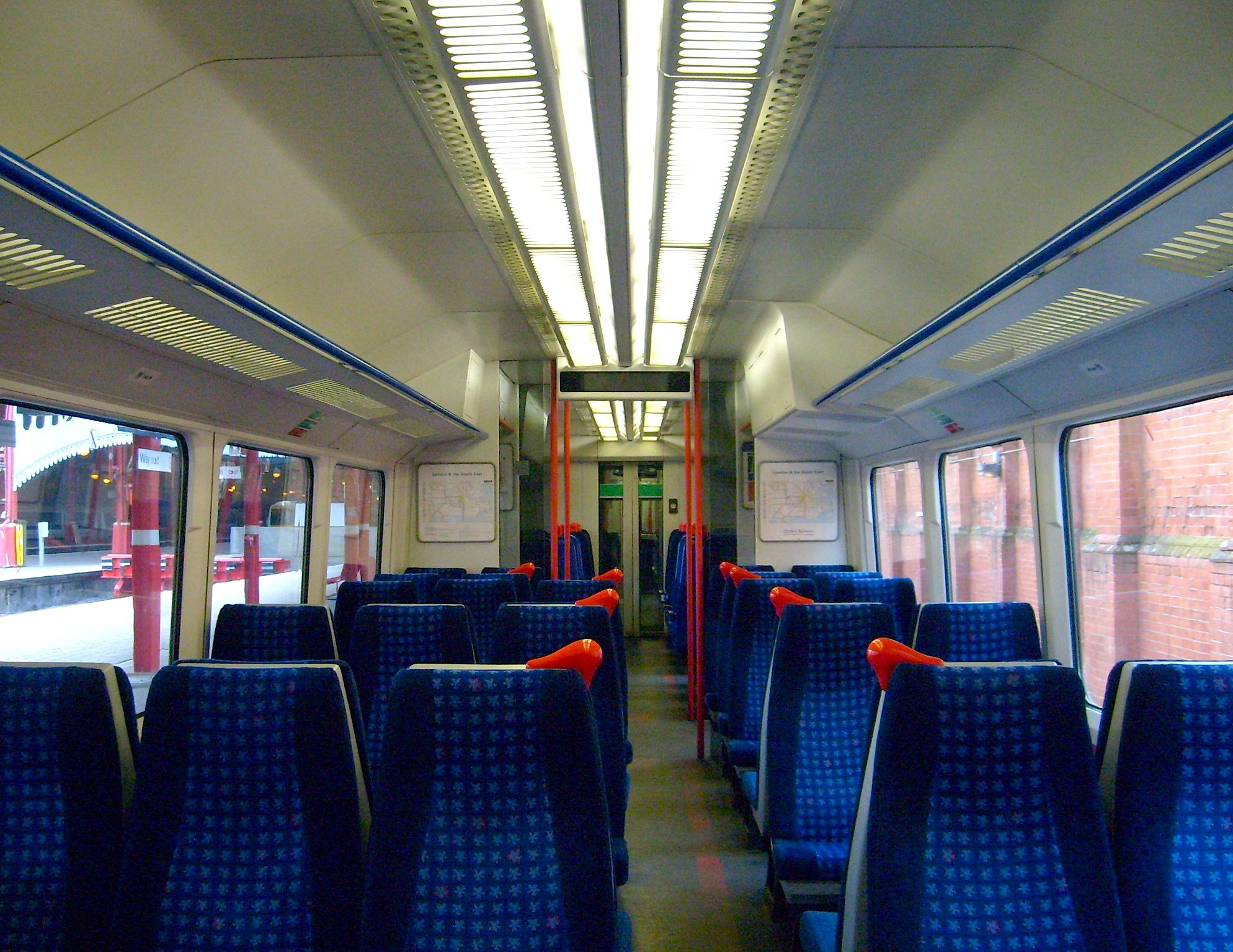 Interior of refurbished Chiltern Railways Class 165